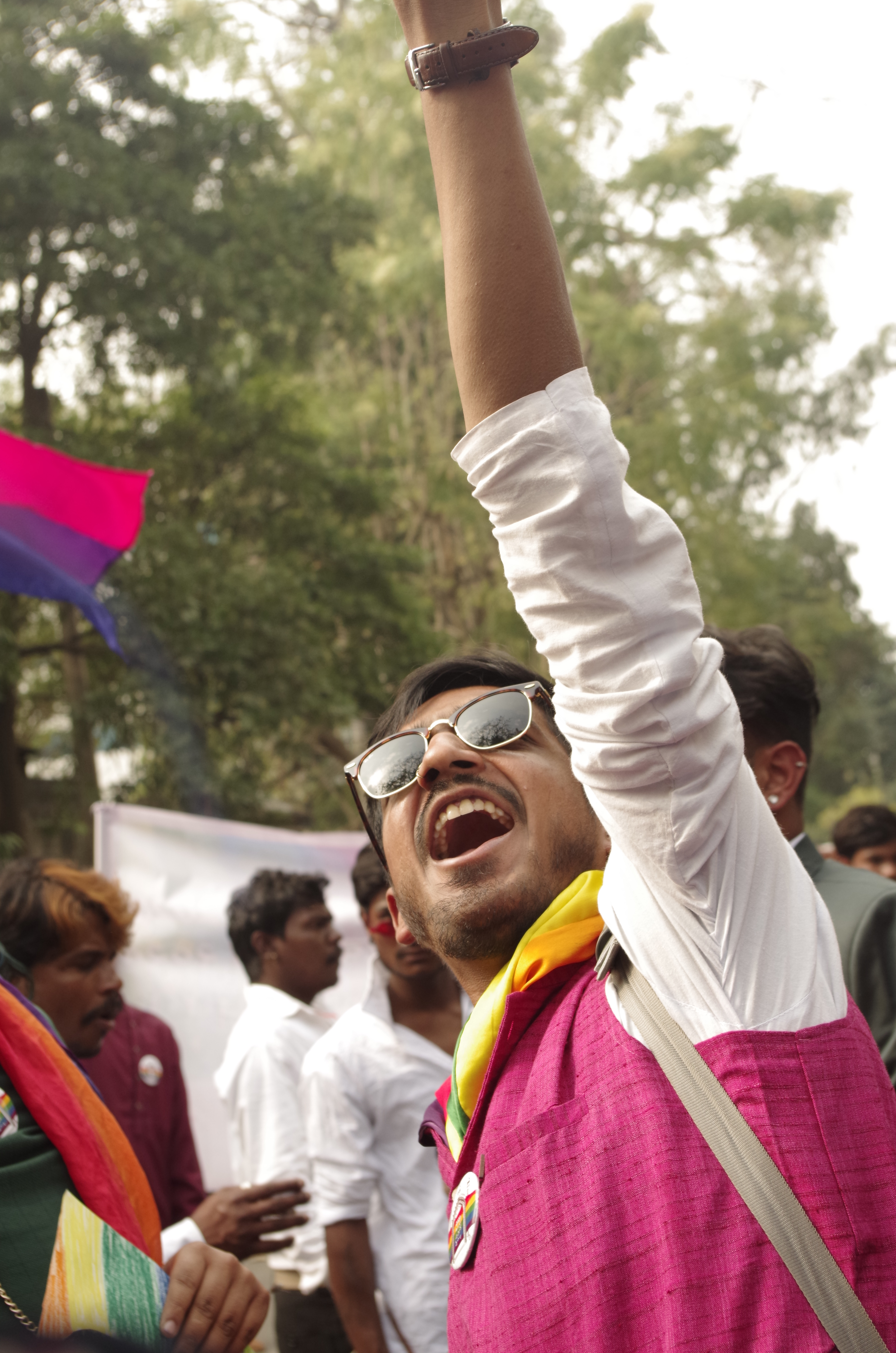 Sayed Raza Hussain Zaidi, one of the organizers of Awafh Queer Pride raising slogans in 4th Awafh Queer Pride Walk